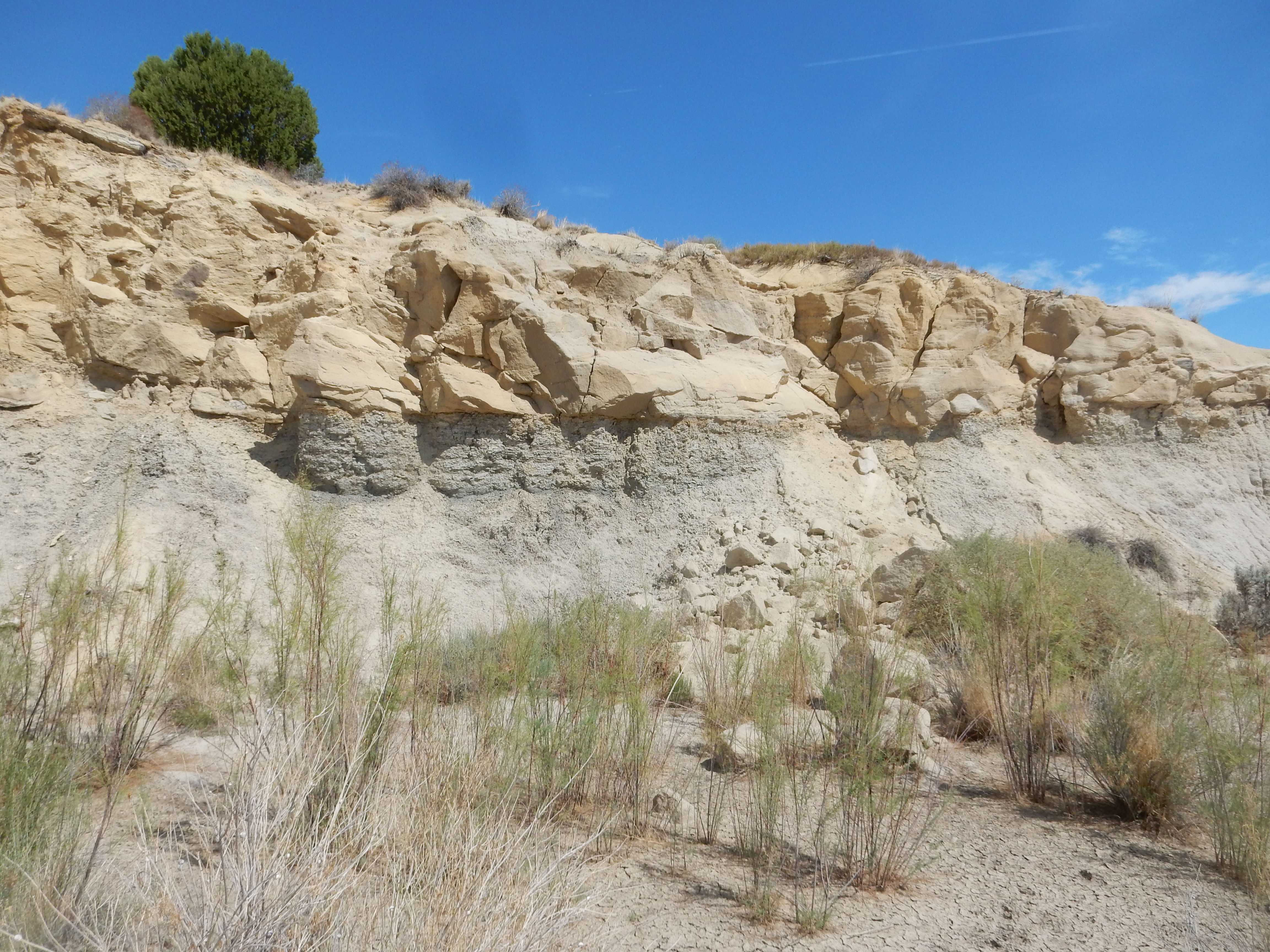 This image shows an exposure of the Ojo Alamo Formation in the Bisti Wilderness, northwestern New Mexico, USA. The Ojo Alamo Formation straddles the boundary between the Cretaceous and Paleocene, though the actual boundary is lost in an internal disconformity. The exposures here contain petrified wood interpreted as a point bar deposit.